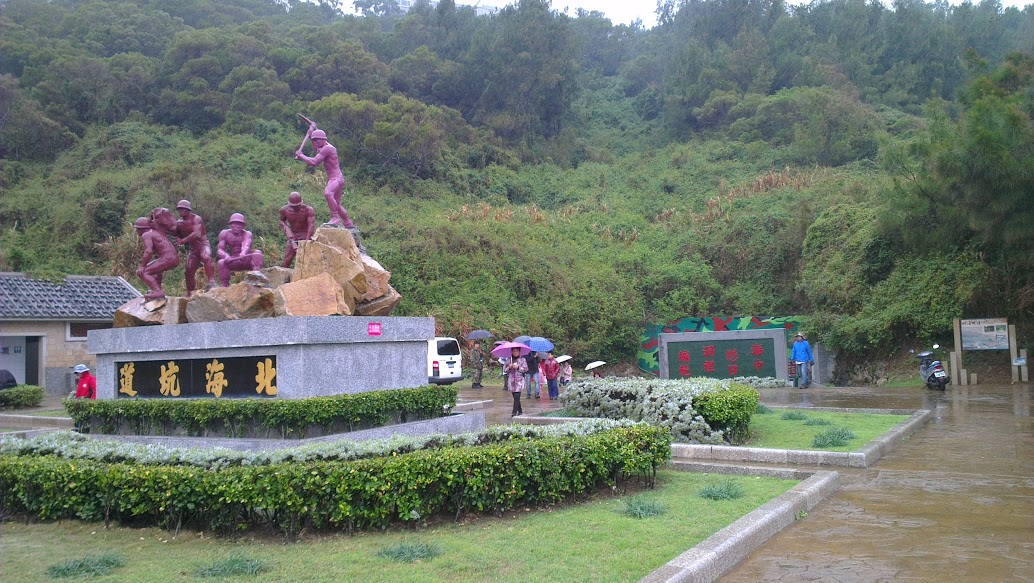 Beihai Tunnel, Nangan Township, Lienchiang County, Fujian Province, Republic of China